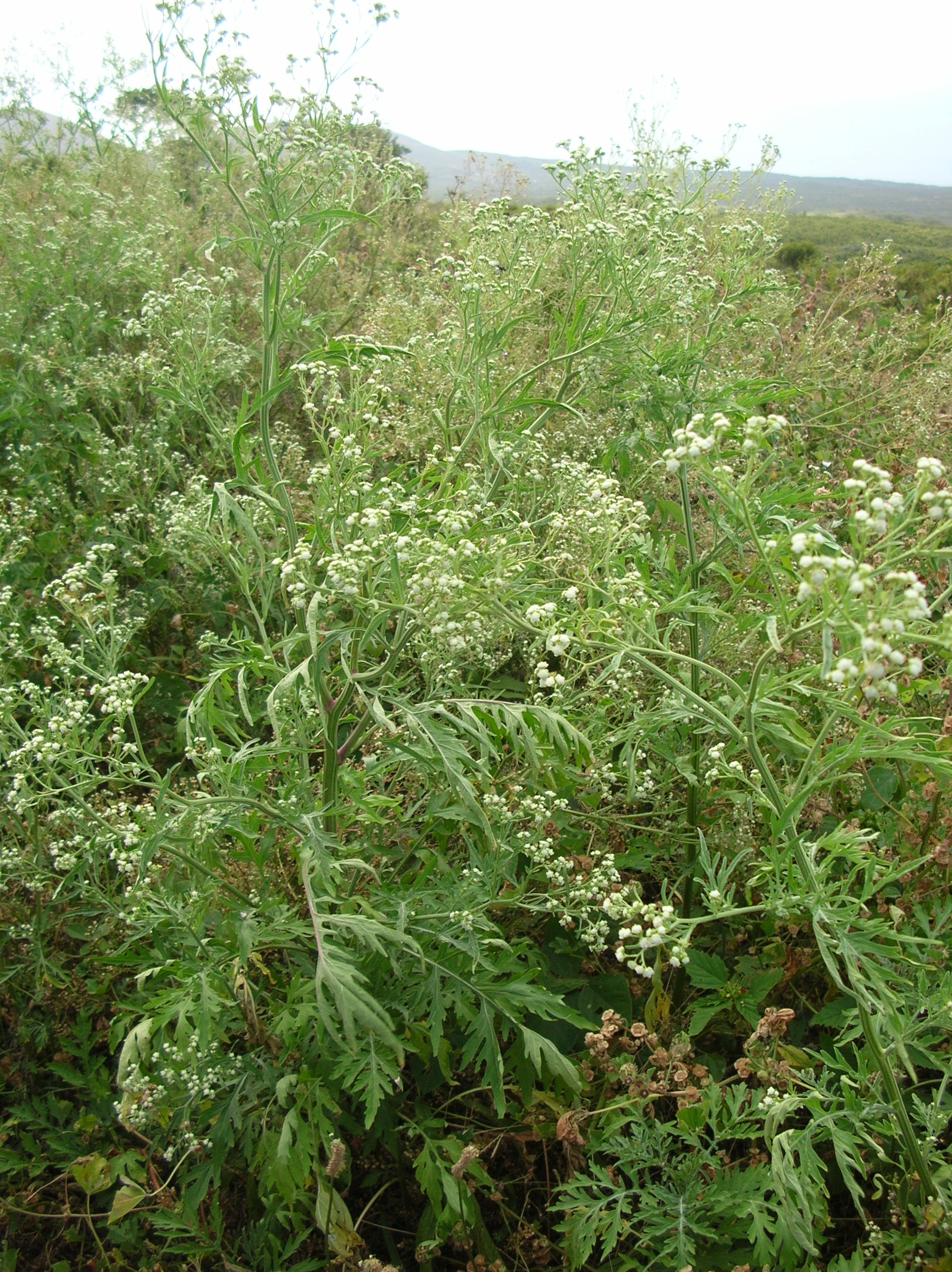 Parthenium hysterophorus (habit). Location: Maui, Auwahi